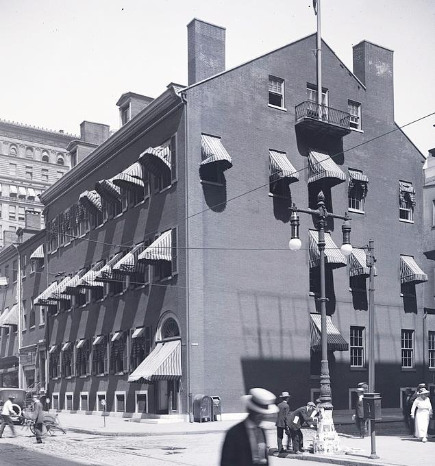 Building of the Philadelphia Club (Thomas Butler house) located at 1301-1305 Walnut Street, Philadelphia, Pennsylvania.